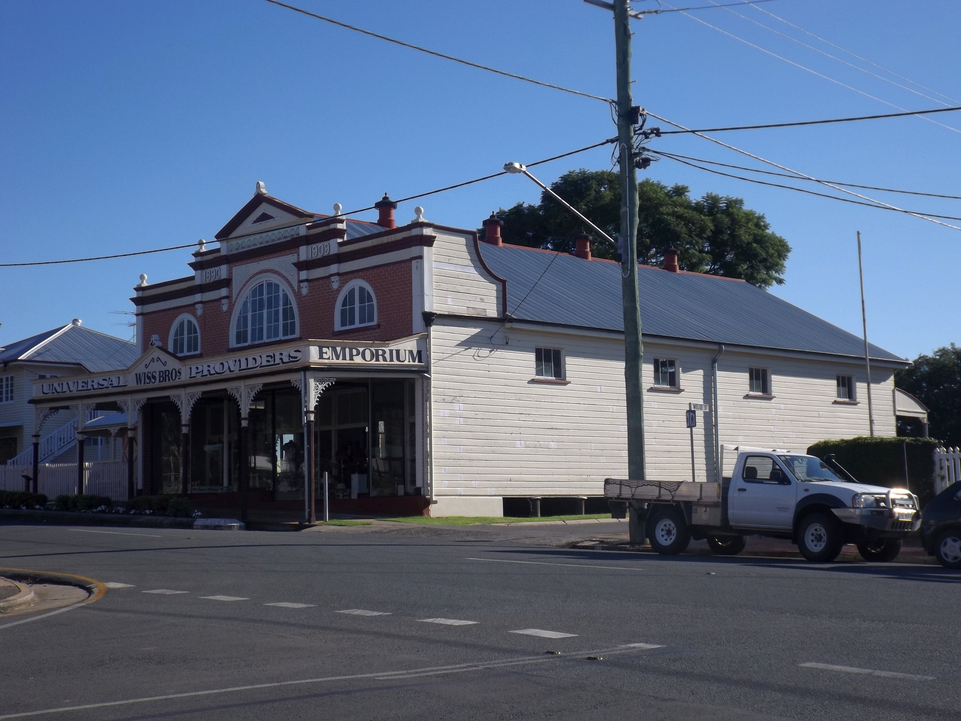 Photo Wiss Brothers Store at Kalbar, Scenic Rim Region, Queensland, Australia.